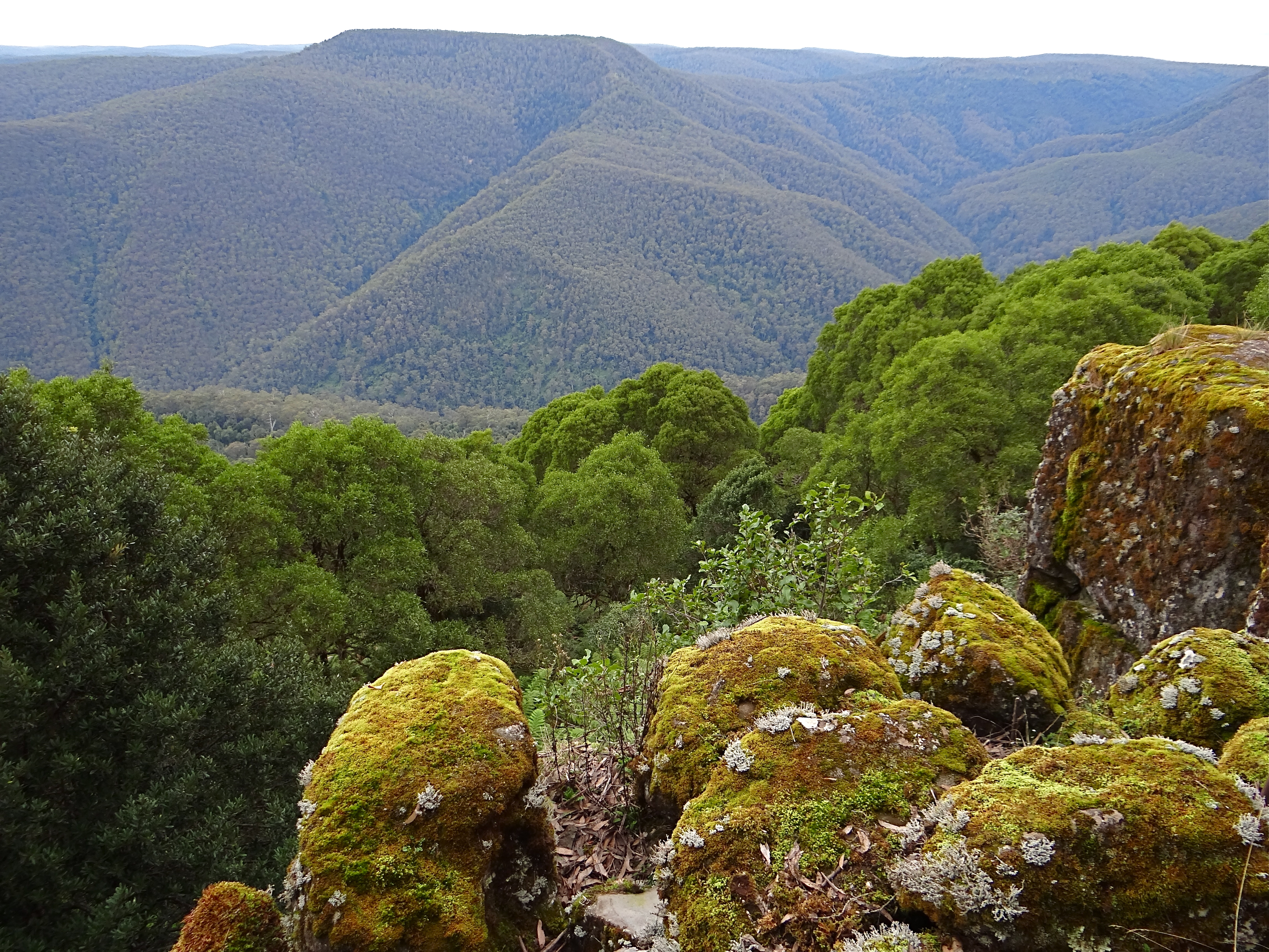 Looking east